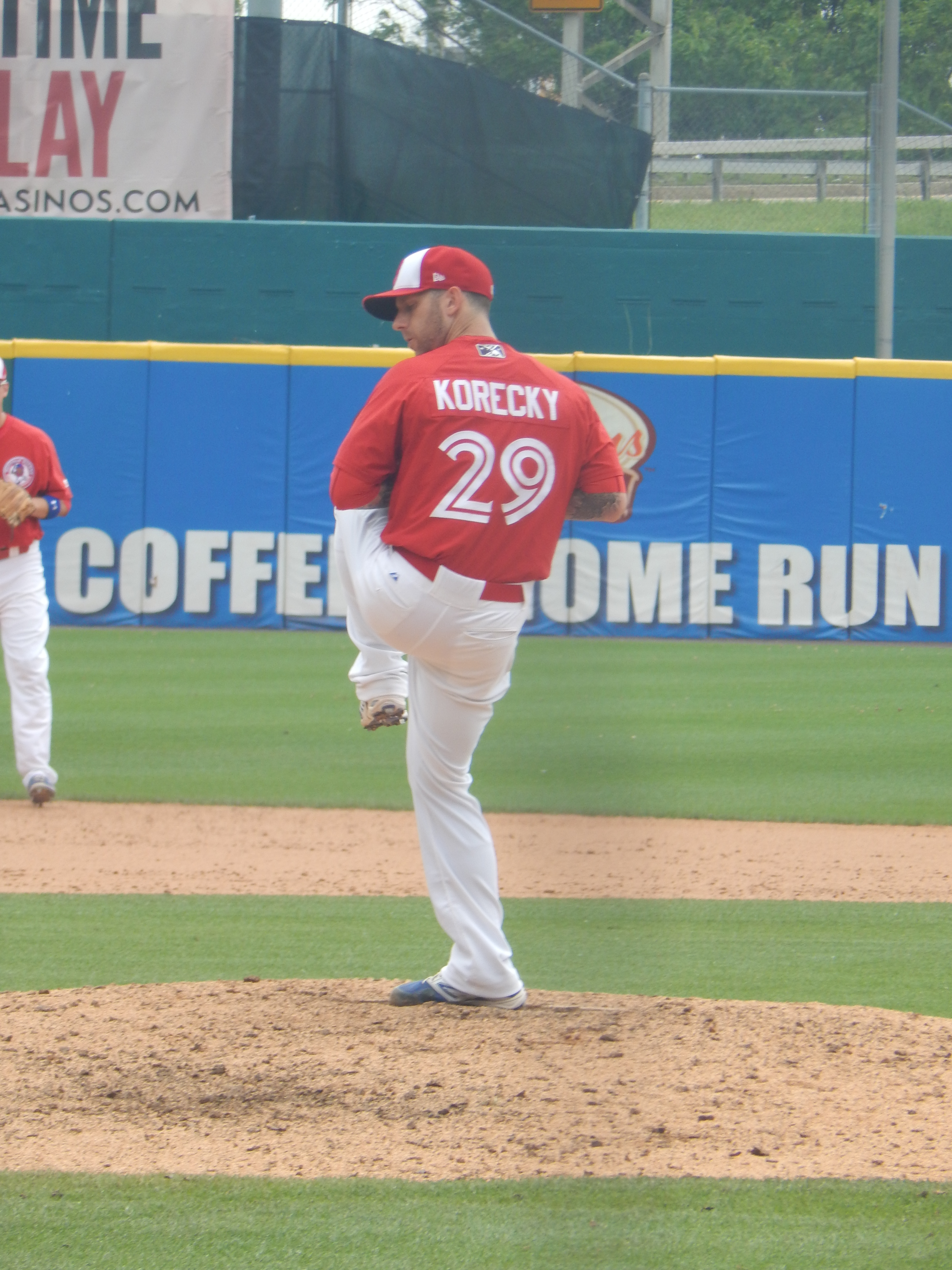 Bobby Korecky pitching for the Buffalo Bisons in June 2015.